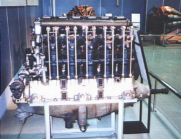 Benz aircraft engine, on display at the Transportation Museum, Tokyo.